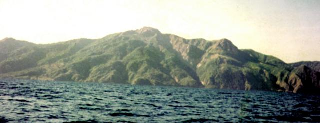 An unvegetated lava dome is visible at the summit of Paluweh volcano, also known as Rokatenda. The complex stratovolcano forms an 8-km-wide island located north of the volcanic arc that cuts across Flores Island. The summit region contains overlapping craters and lava domes; several flank vents occur along a NW-trending fissure. The largest historical eruption of Paluweh occurred in 1928.